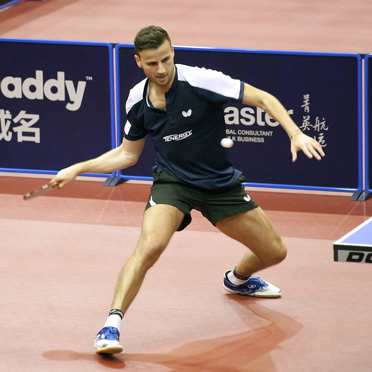 ITTF World Tour 2017 German Open, Magdeburg, Germany, 7 Nov 2017 - 12 Nov 2017, Apolonia Tiago